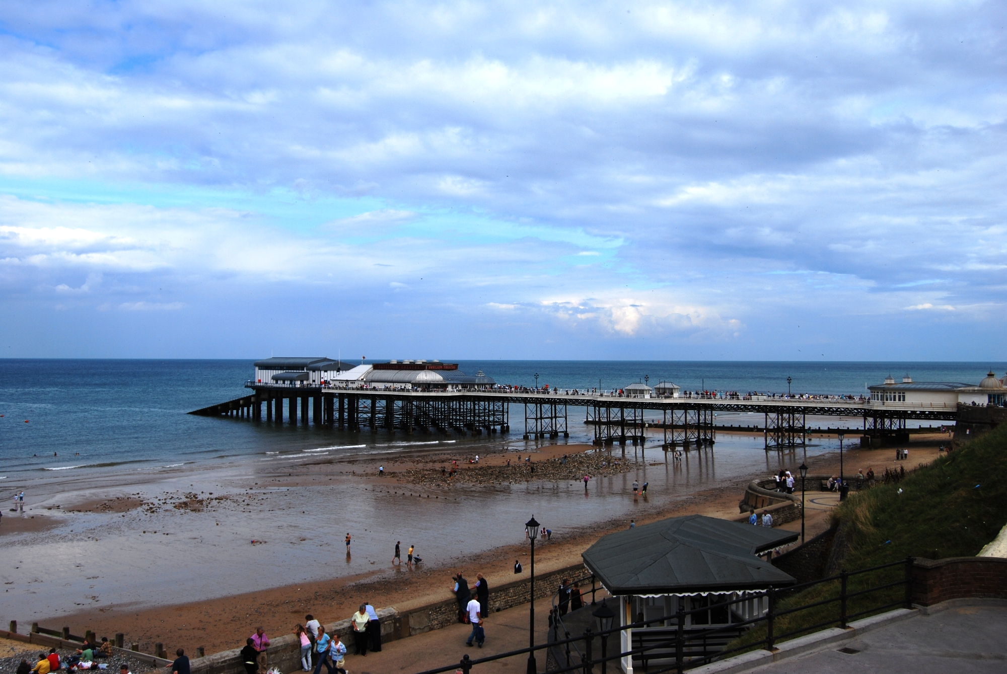 Cromer Pier, Norfolk